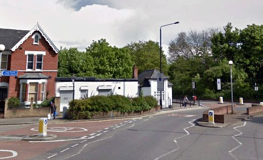 The single storey white buildings are former coal offices on the Stapleton Hall Road railway bridge over the Gospel Oak to Barking railway. Pictured in 2012, shortly before their demolition. They were last used as a small domestic dwelling and a cobblers' shop before being replaced by new housing